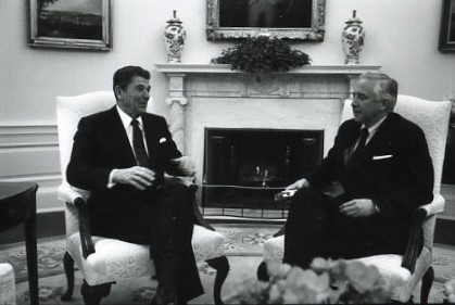 Ronald Reagan is interviewed by David McCullough for Parade Magazine in Oval Office in 1981